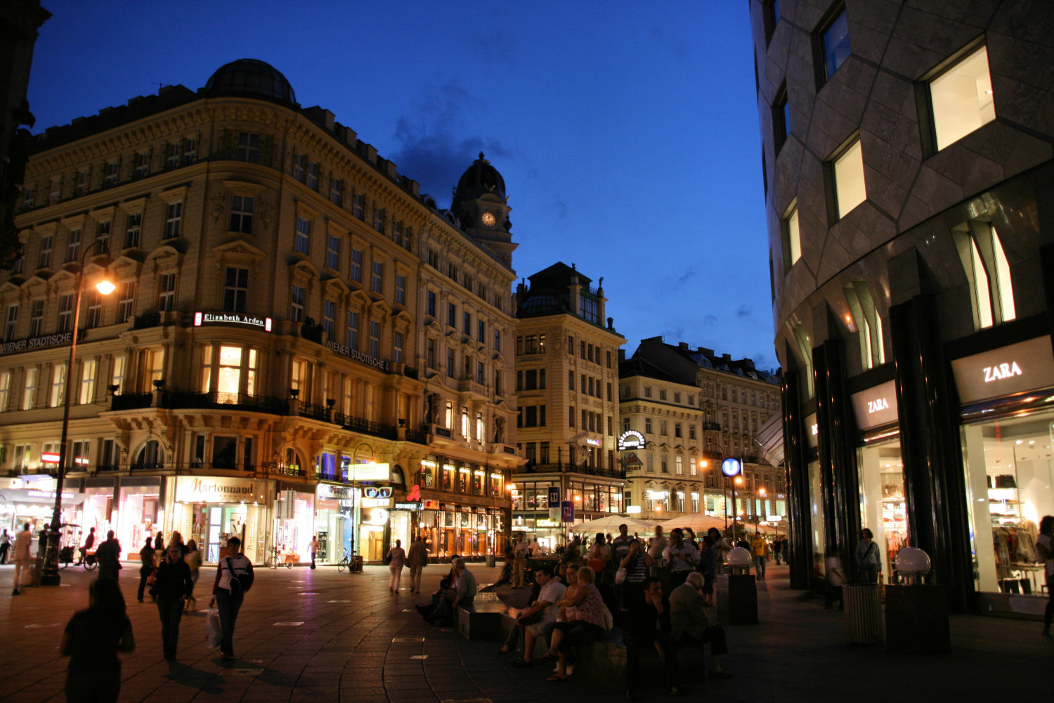 Stephansplatz and Graben street in the evening. Vienna, Austria.